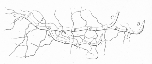 Paris quadrifolia; Rhizome in November. A and B, scars from the two previous years above-ground shoots. C. current years generative shoot. D. Terminal bud. Each portion of the rhizome axis between two above-ground shoots has three internodes. B has set a side branch, b1; b is a bud.